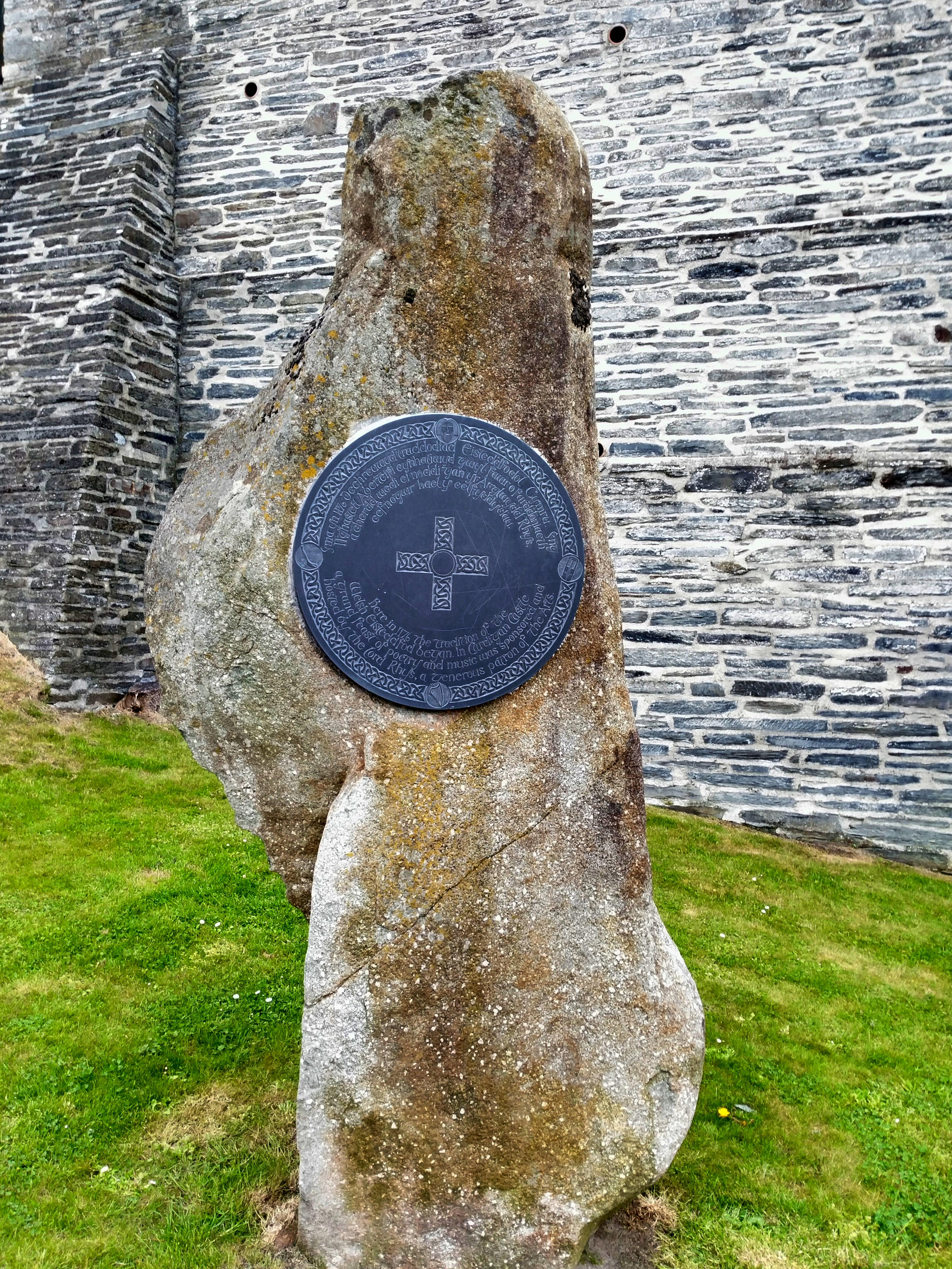 A slate plaque on a modern standing stone commemorating the first Eisteddfod in 1176, which took place in Cardigan Castle. In the background is the west wall of Cardigan Castle.